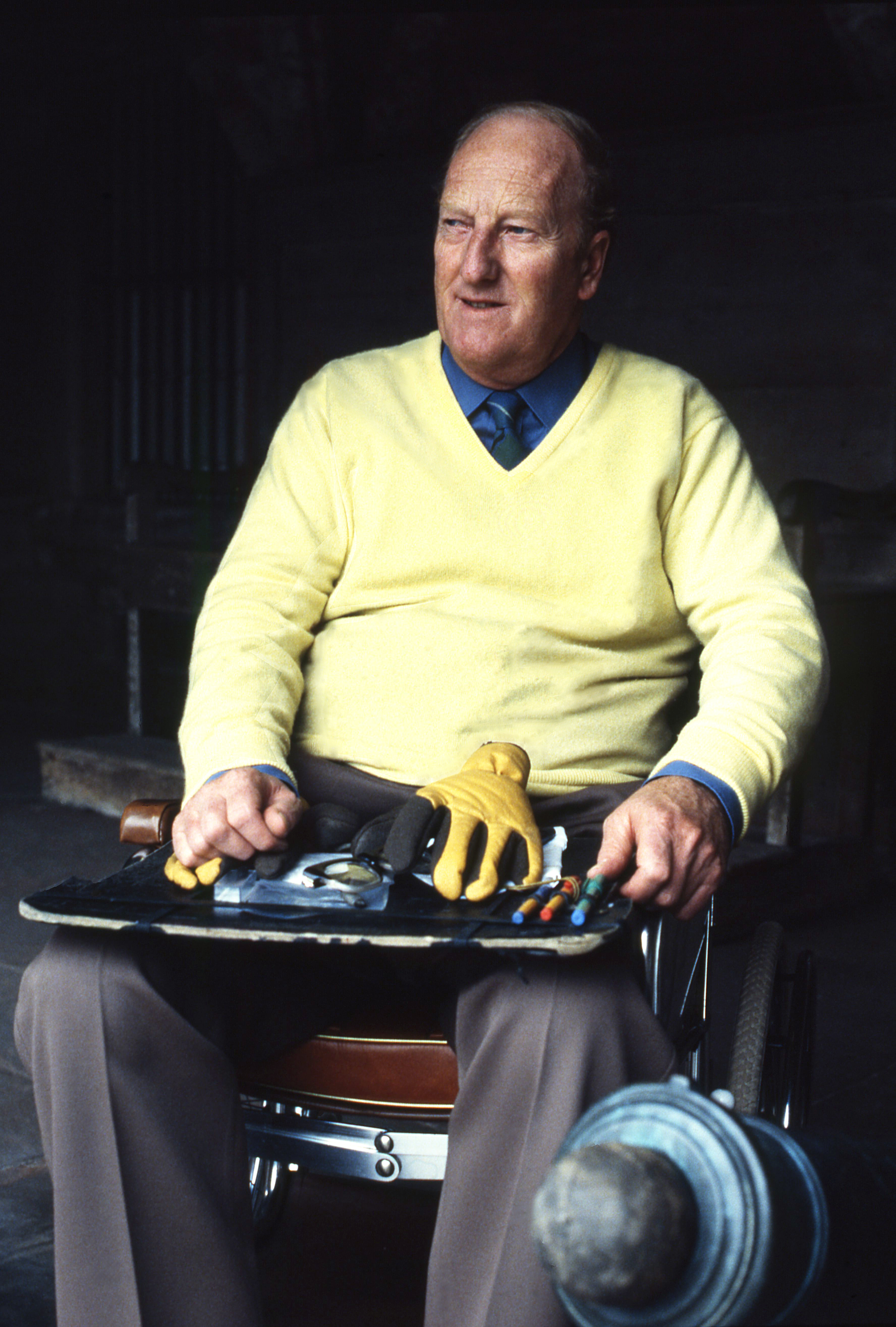 The 9th Duke of Buccleuch & 11th Duke of Queensberry taken outside Drumlarig Castel Scotland